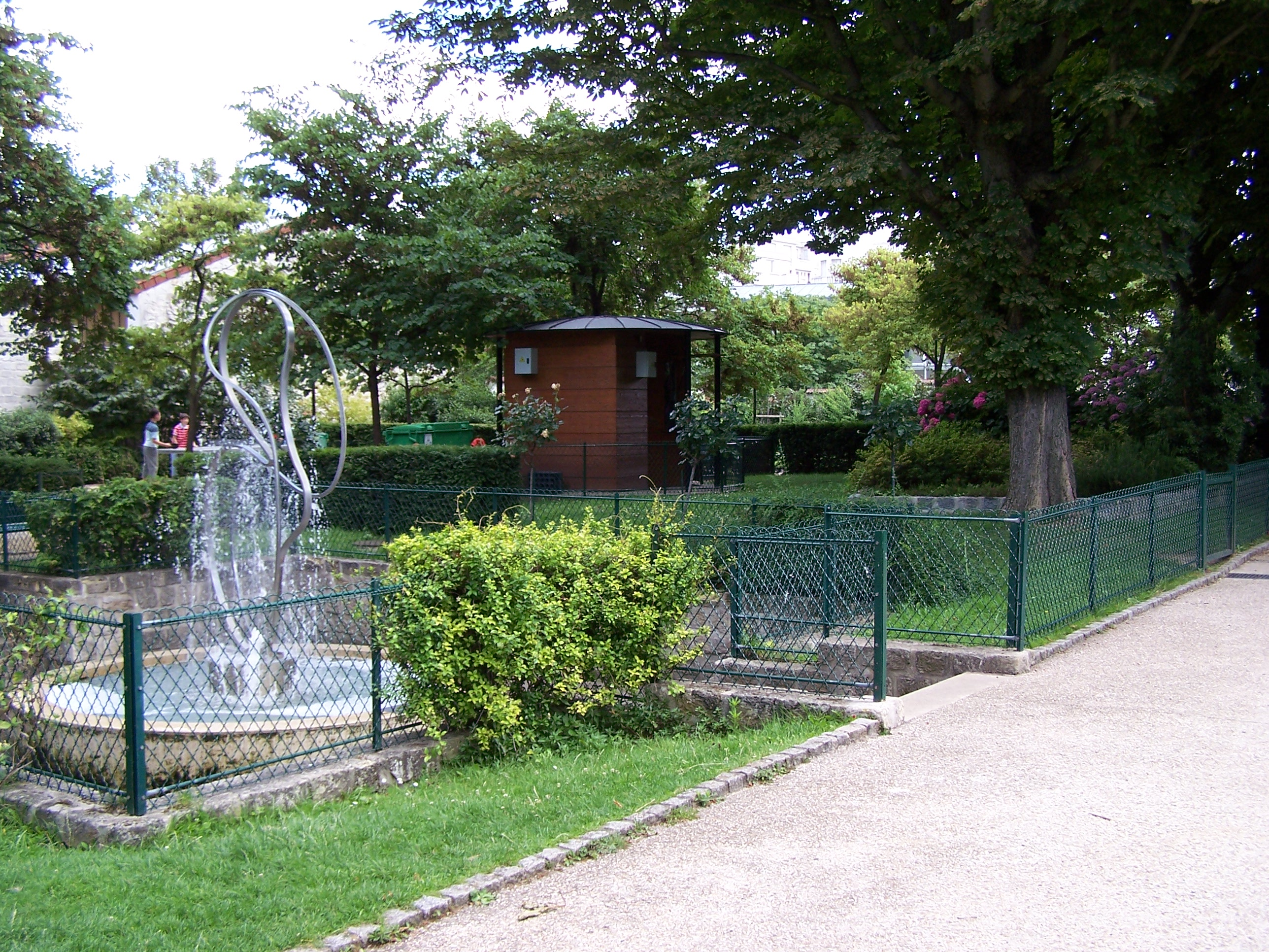 View of the square Henri-Cadiou in Paris. Note that the fountain is a sculpture by César Domela